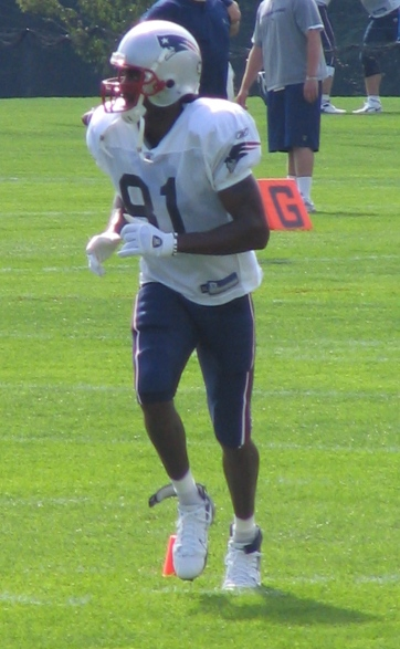 "New England Patriots wide receiver Randy Moss at the Patriots 2007 Training Camp opening day."